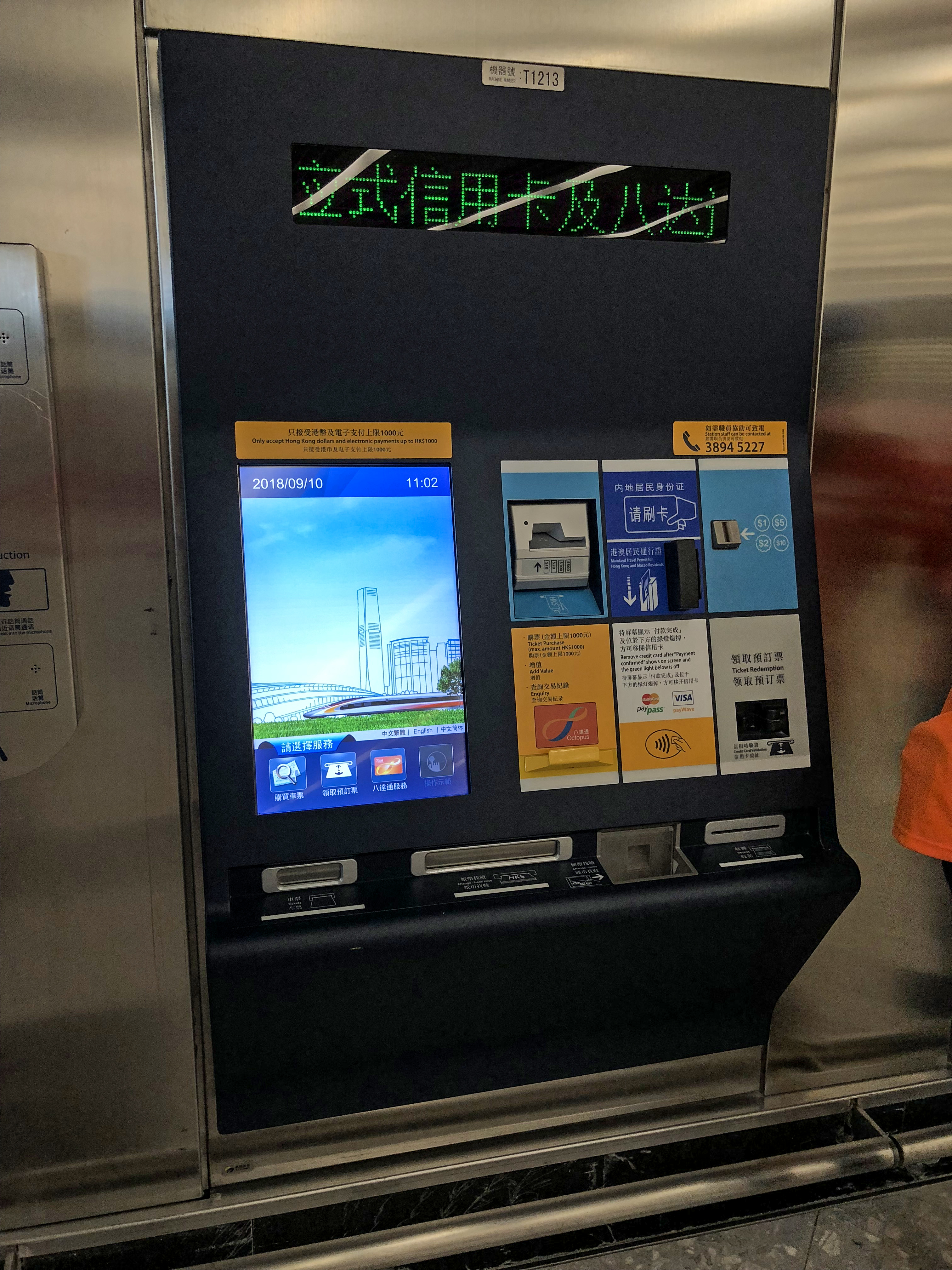 Just an example of these TVMs. Tickets for G80 from HK West Kowloon to Shenzhenebei or Guangzhounan are not sold, unlike G100.